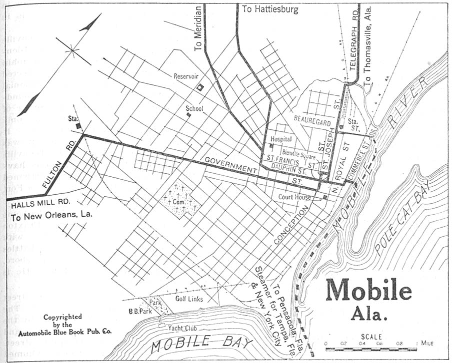 Map of Mobile, Ala., USA